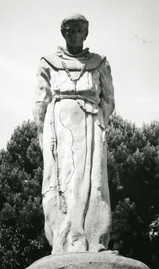 Father Junipero Serra by Arthur Putnam, 1909. Mission San Francisco de Asís, San Francisco, California